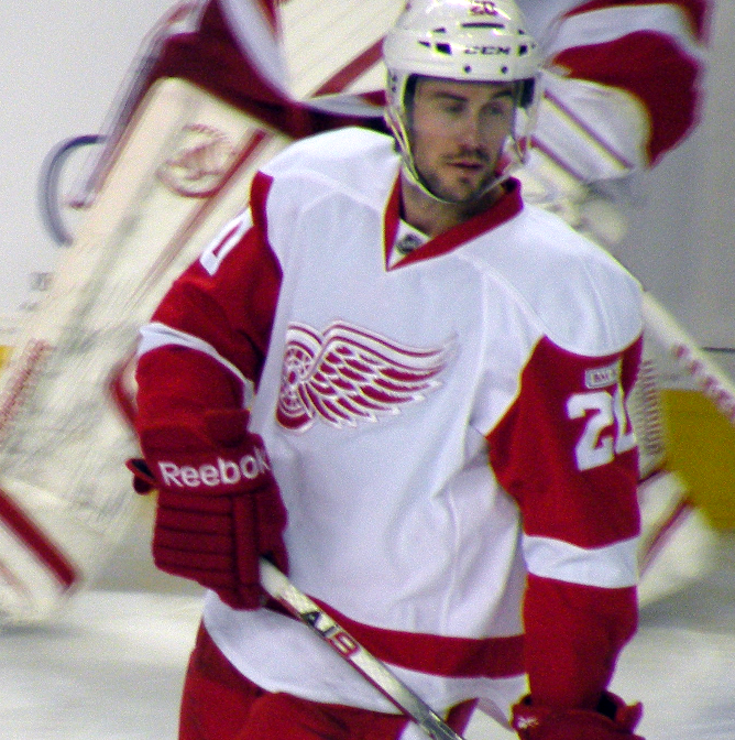 Detroit Red Wings forward Drew Miller prior to a National Hockey League game against the Calgary Flames.